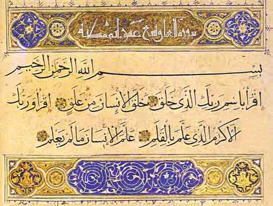 The first four verses (ayat) of Al-Alaq, the 96th chapter (surah) of the Qur'an. Egyptian Calligraphy of the first lines of Sura al-Alaq.